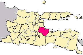 Pasuruan county in East Java province, Indonesia